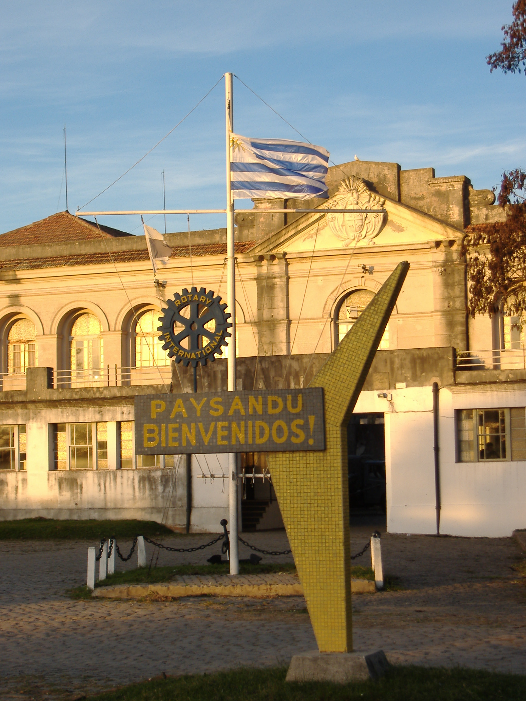 Old port facilities in Paysandú, Uruguay (customs office).